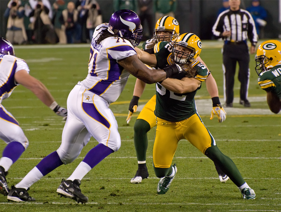 Minnesota Vikings vs. Green Bay Packers at Lambeau Field on Monday Night, November 14, 2011. Photo by Mike Morbeck.